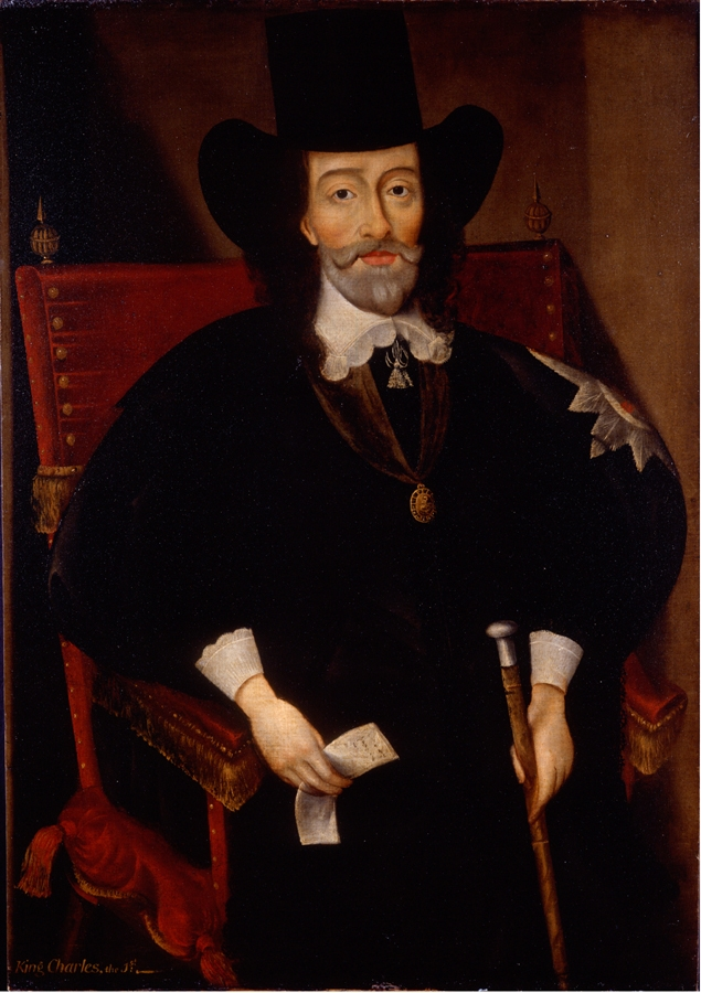 Charles I of England